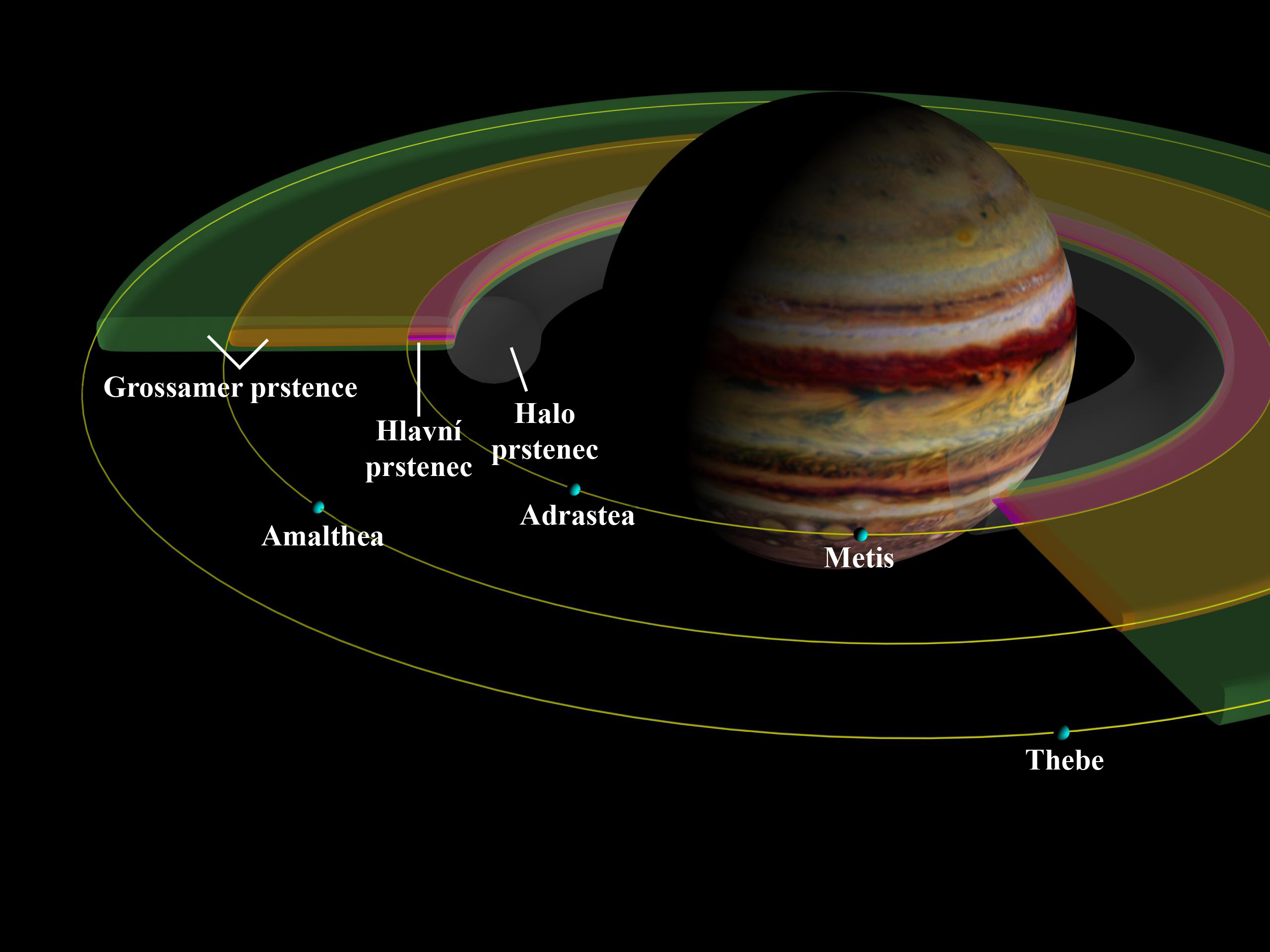 Rings of Jupiter